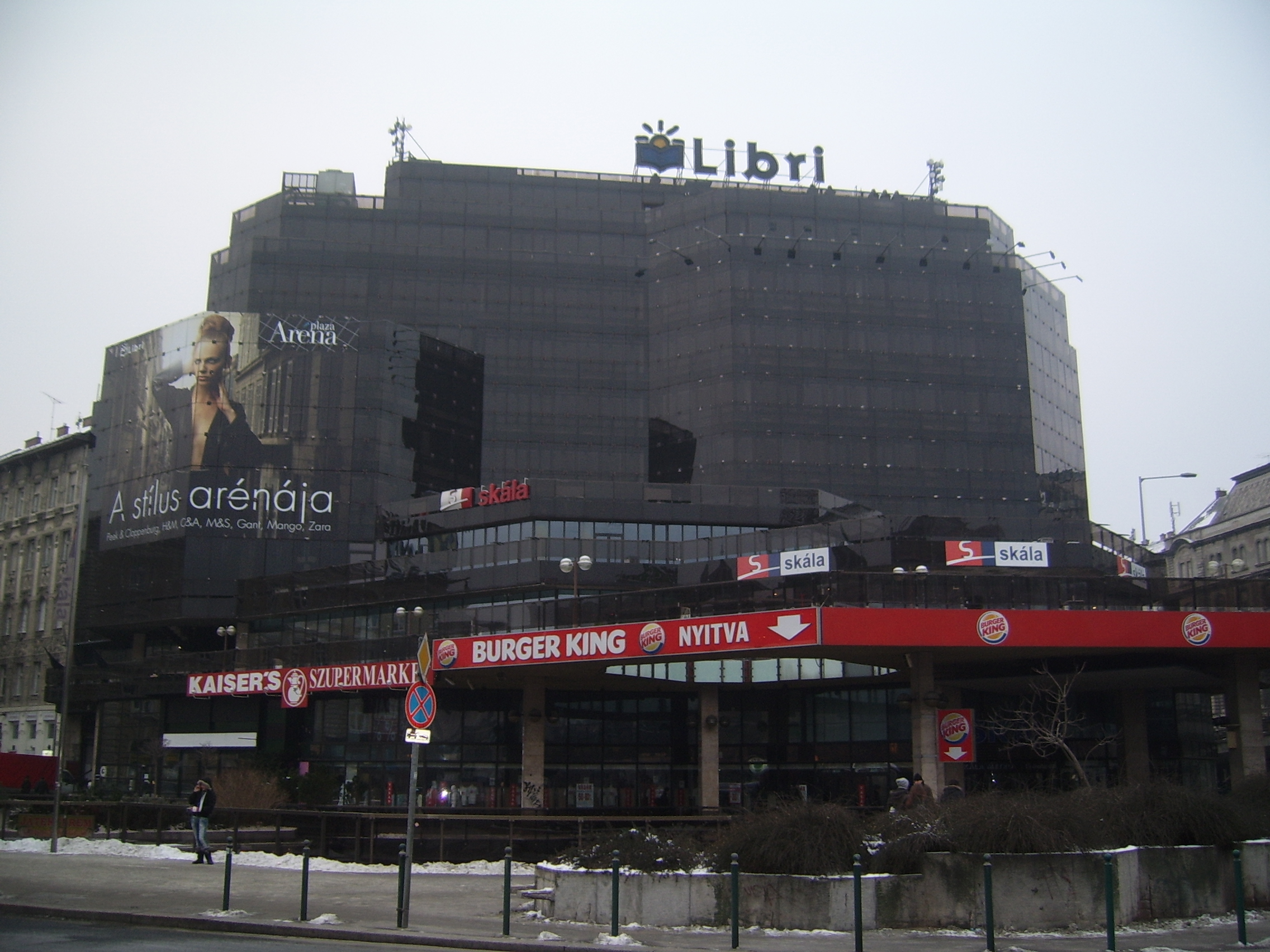 The Skála Metró supermarket in Budapest